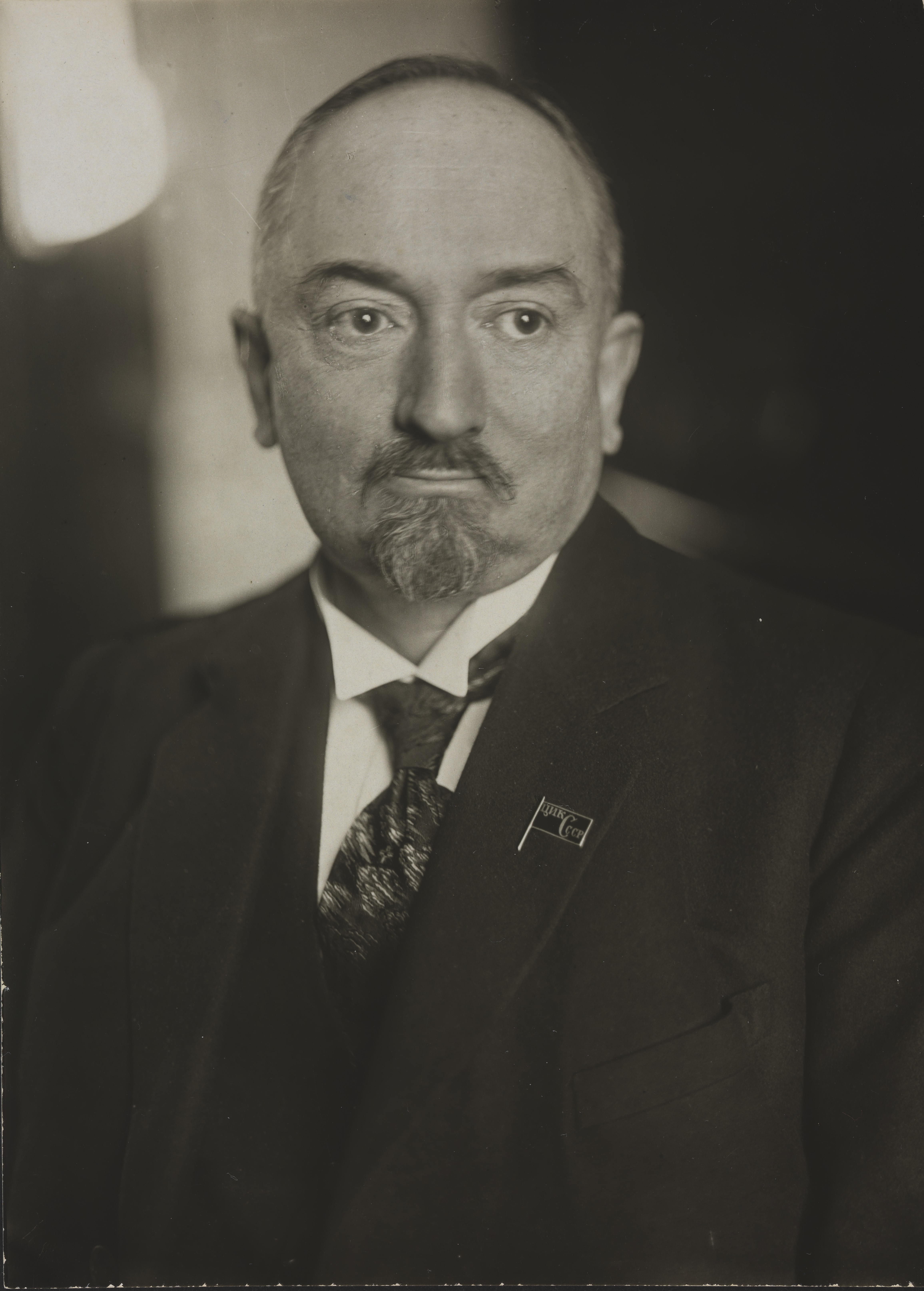 Georgij Vasiljevitcj Tsjitsjerin, Soviet diplomat. From 1918, commissioner of foreign affairs. He carried out the Soviet Union's foreign policy with great cunning.